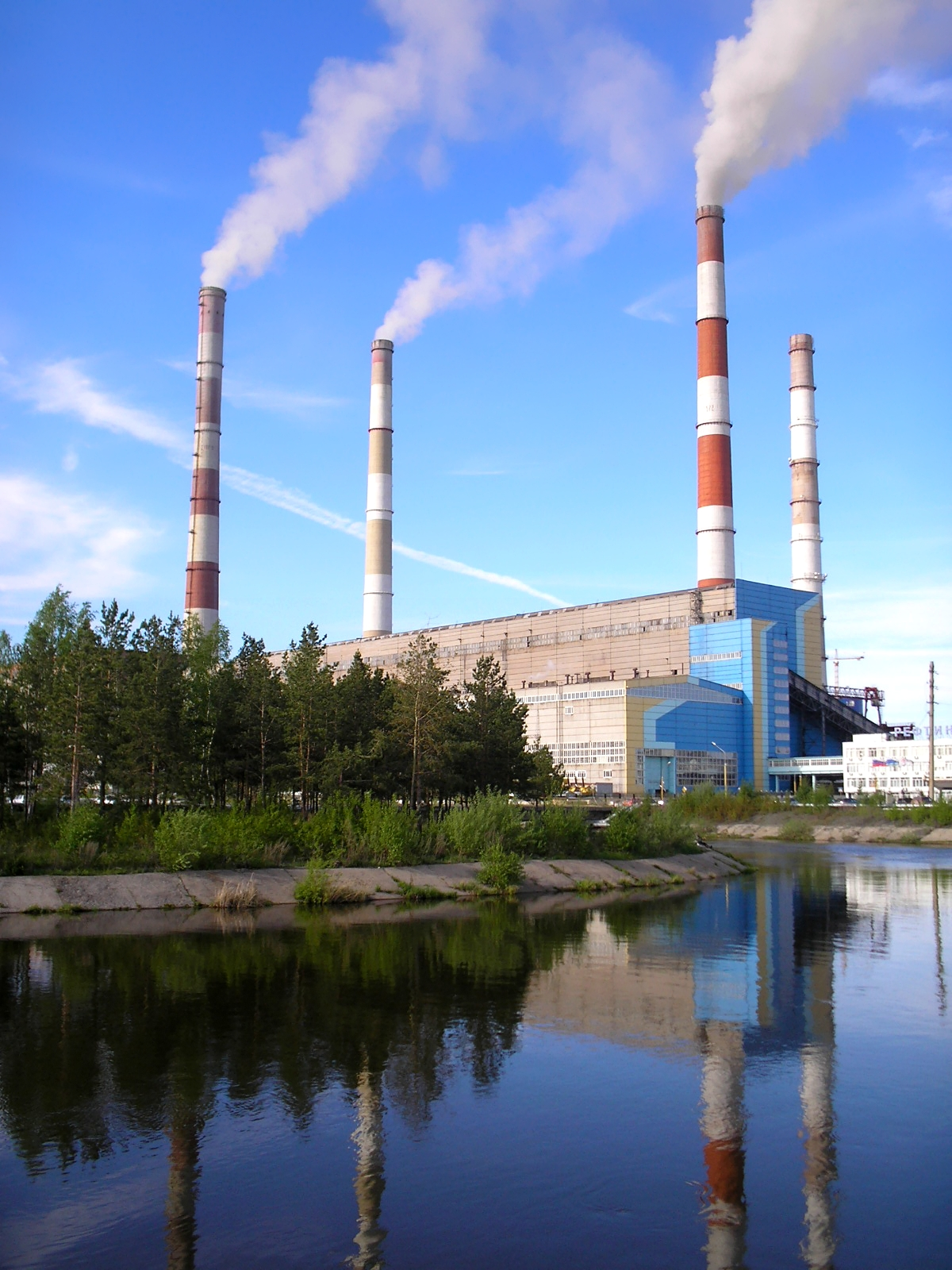 Reftinskaya GRES